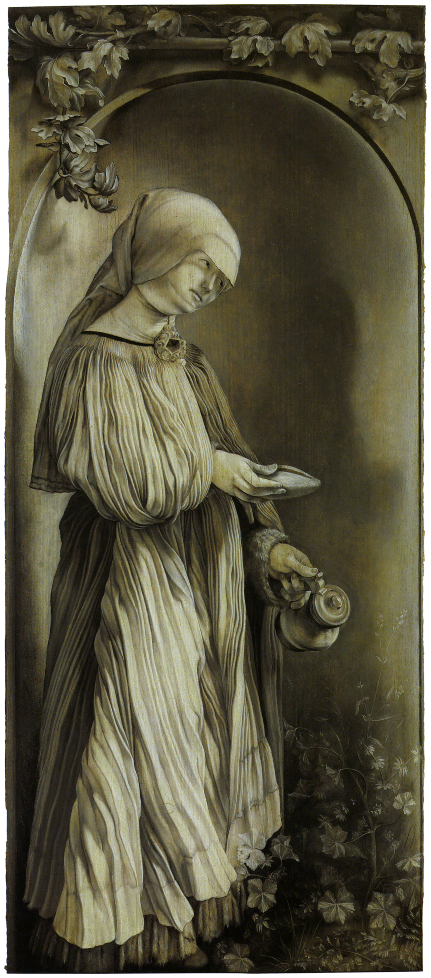 Standing panel: St. Elisabeth of Hungary